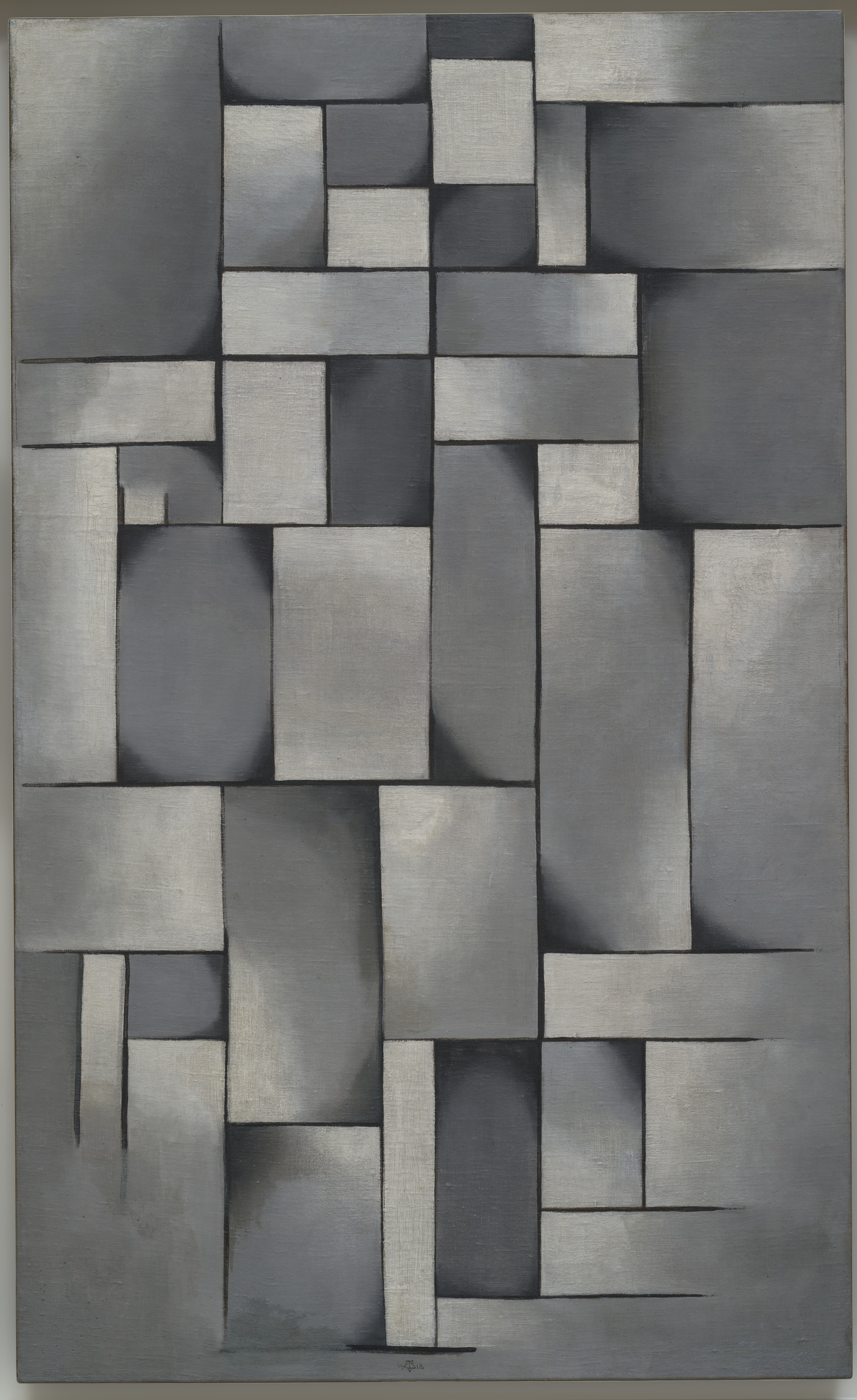 This file was provided to Wikimedia Commons by the Solomon R. Guggenheim Museum as part of a cooperation project. The Solomon R. Guggenheim Museum provides images depicting artworks which are public domain or licensed under a free license.